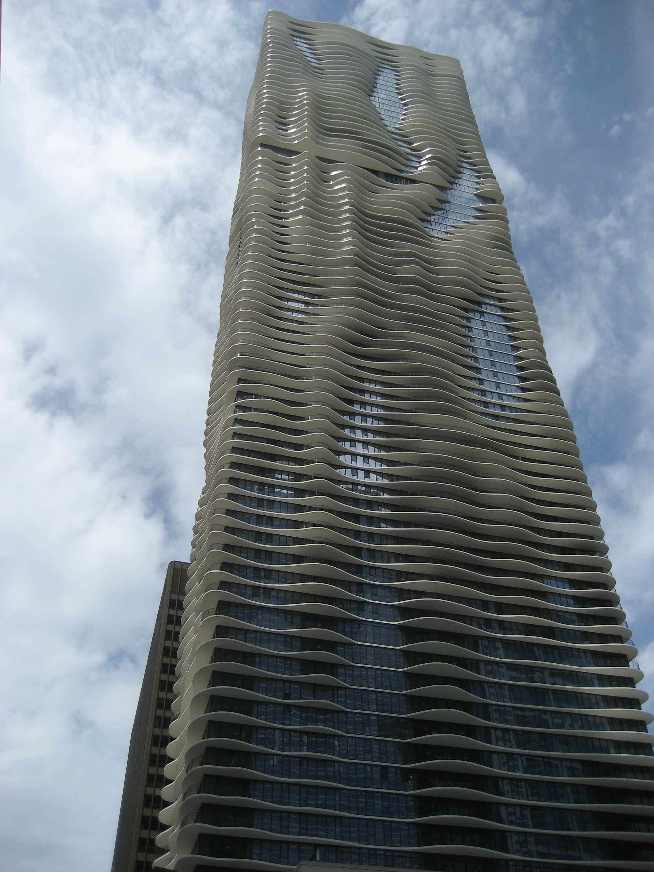 Detailed image of Aqua Tower in Chicago.